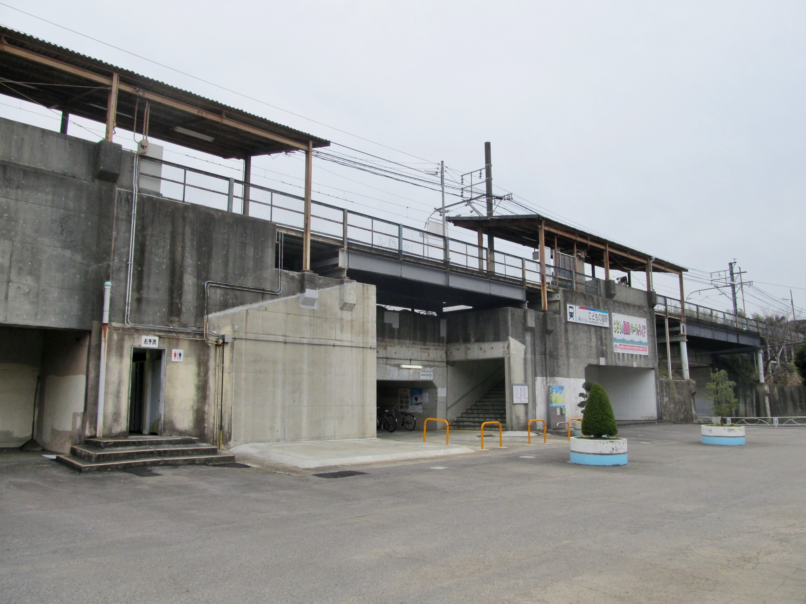 Nagoya Railroad Gamagōri Line Kodomonokuni Station Gate